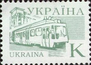 Stamp of Ukraine